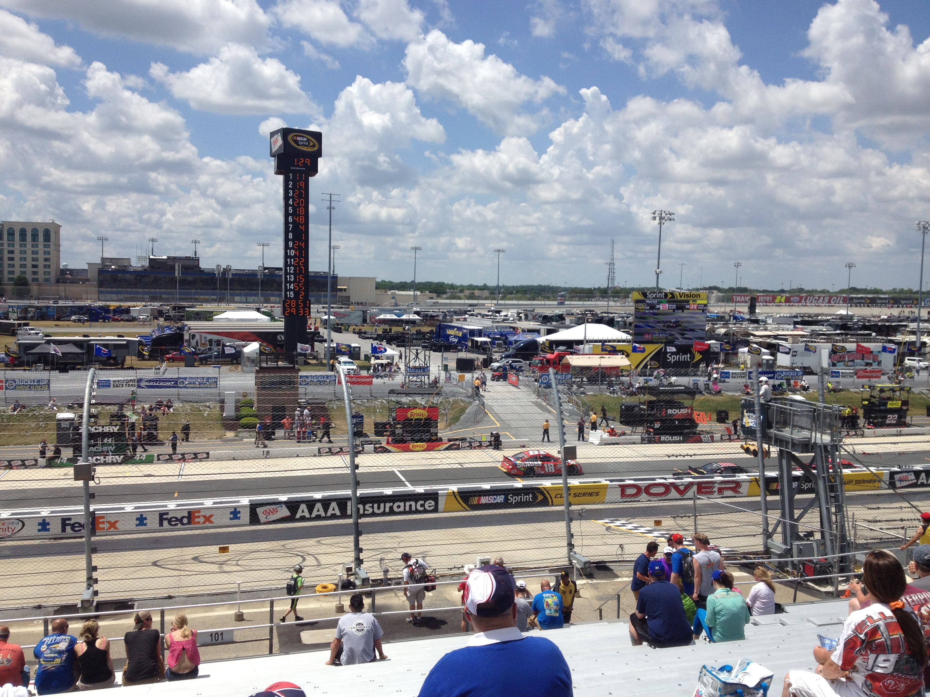 Final practice for the 2015 FedEx 400 at Dover International Speedway viewed from the frontstretch